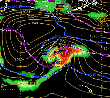 weather charts